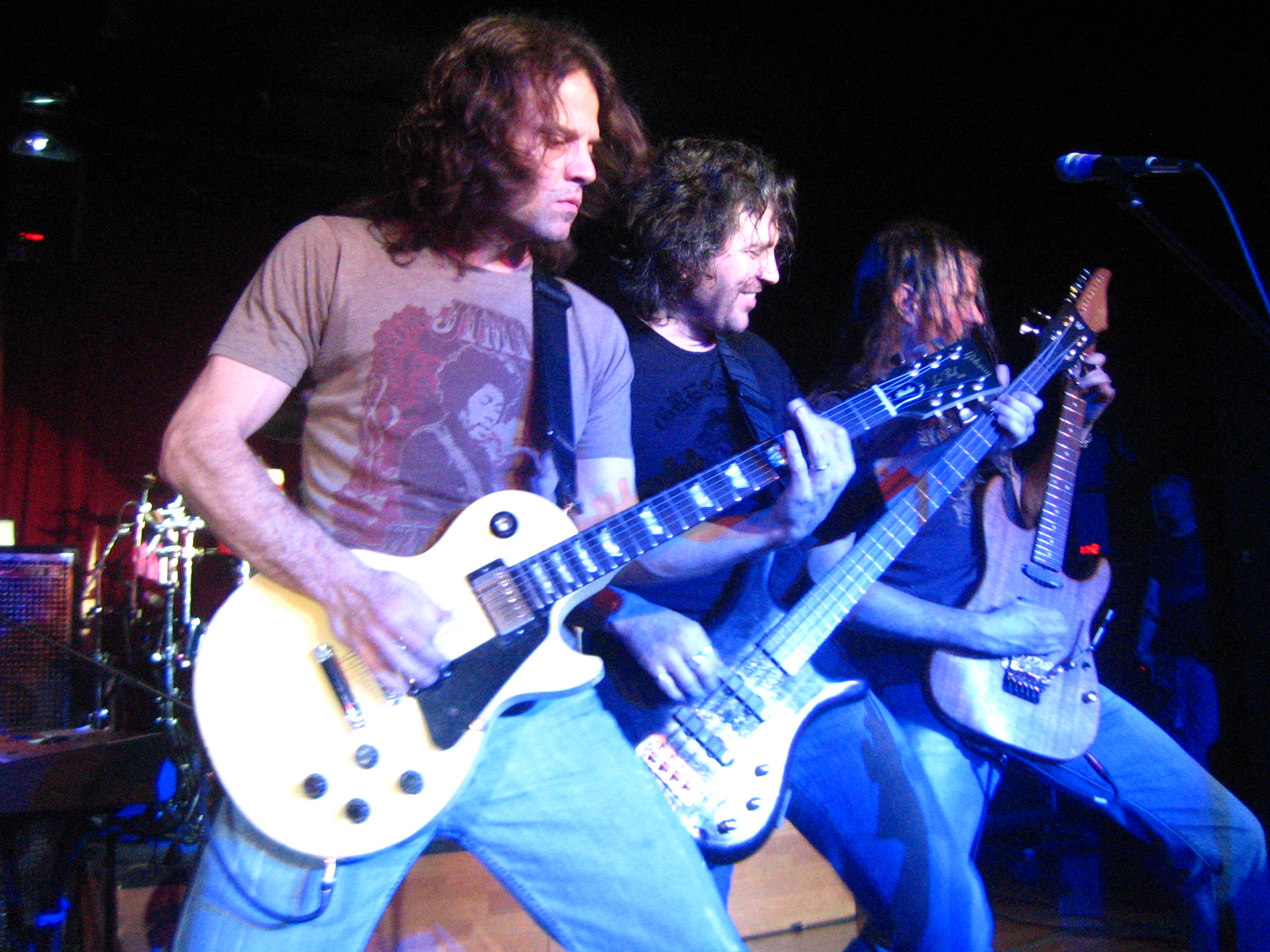 Source - released under Creative Commons 2.0 Generic (